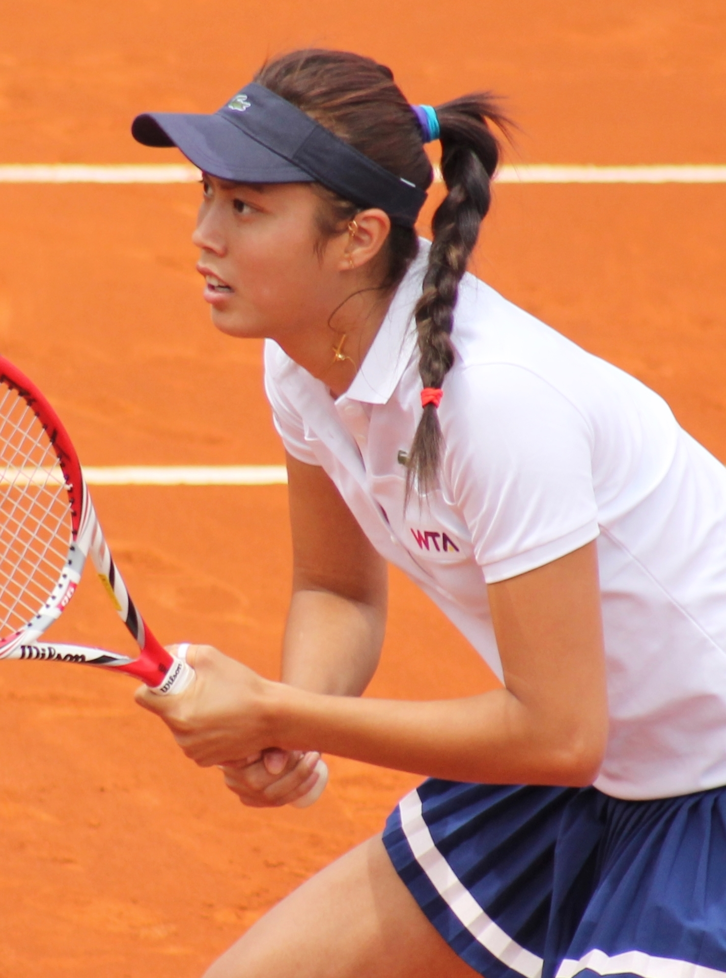 Chan H. C. MA14 (1)